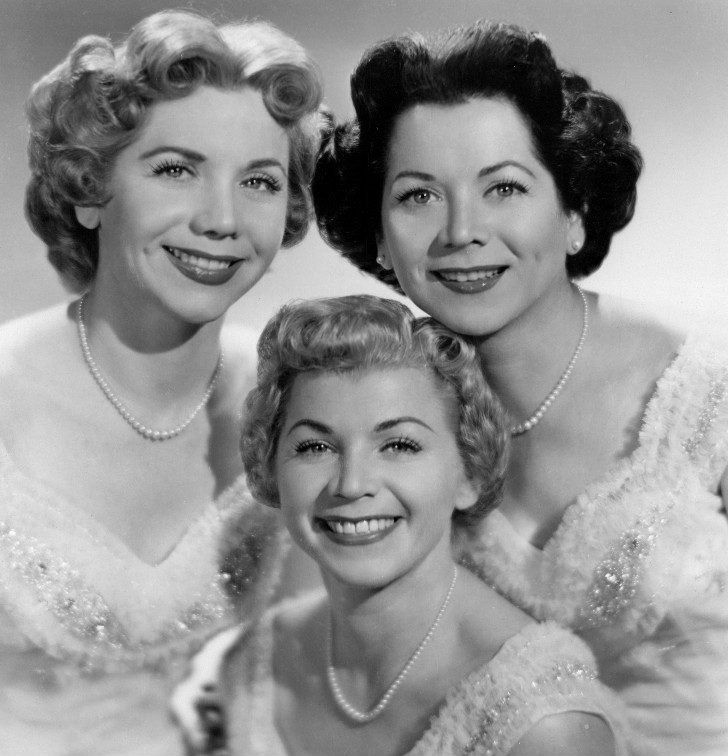 Publicity photo of The Fontane Sisters.